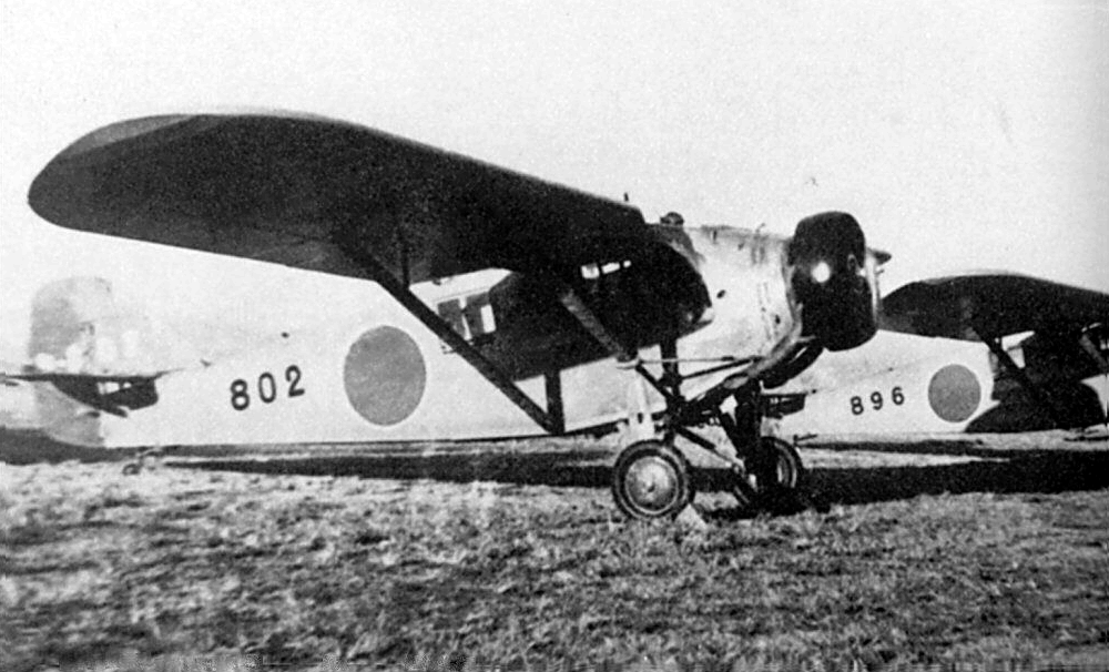 Mitsubishi K3M trainers.